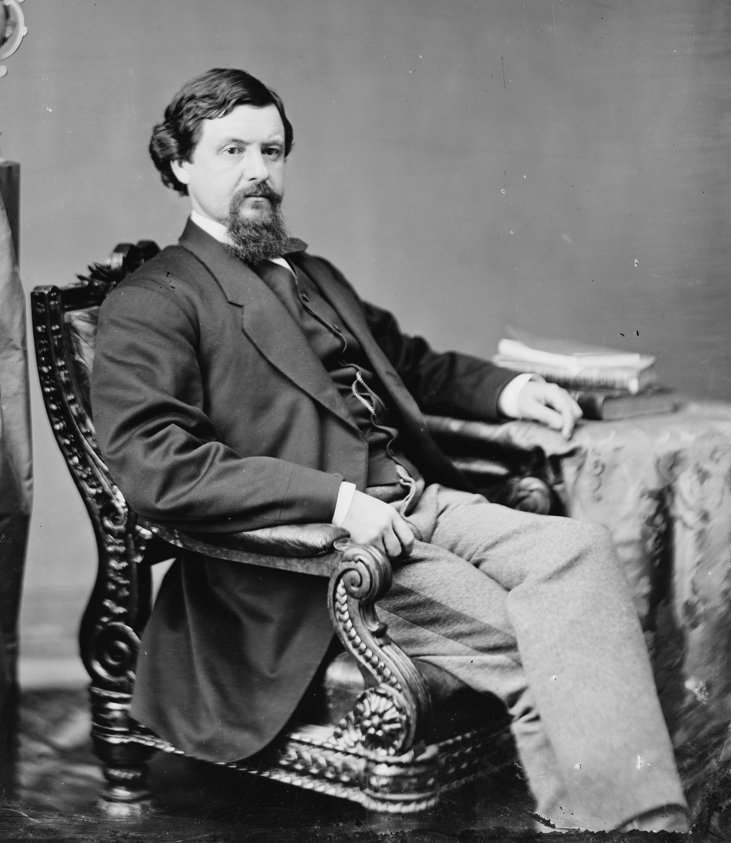 Theodore Medad Pomeroy. Library of Congress description: "Hon. T. M. Pomeroy of N.Y."